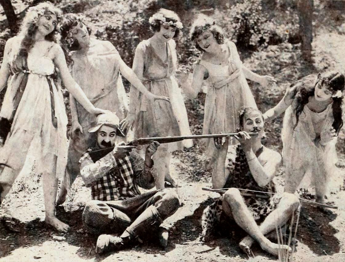 Still from an unidentified "forthcoming Bull's Eye production" with Charles Dorety and Sid Smith (aka Sidney Smith), the actresses are not identified, on page 72 of the August 23, 1919 Exhibitors Herald. The name of the American short comedy film is apparently not listed in the IMDB, which does not list any films in 1919 or 1920 with these two actors. Bull's Eye was an American film production company active in those years.